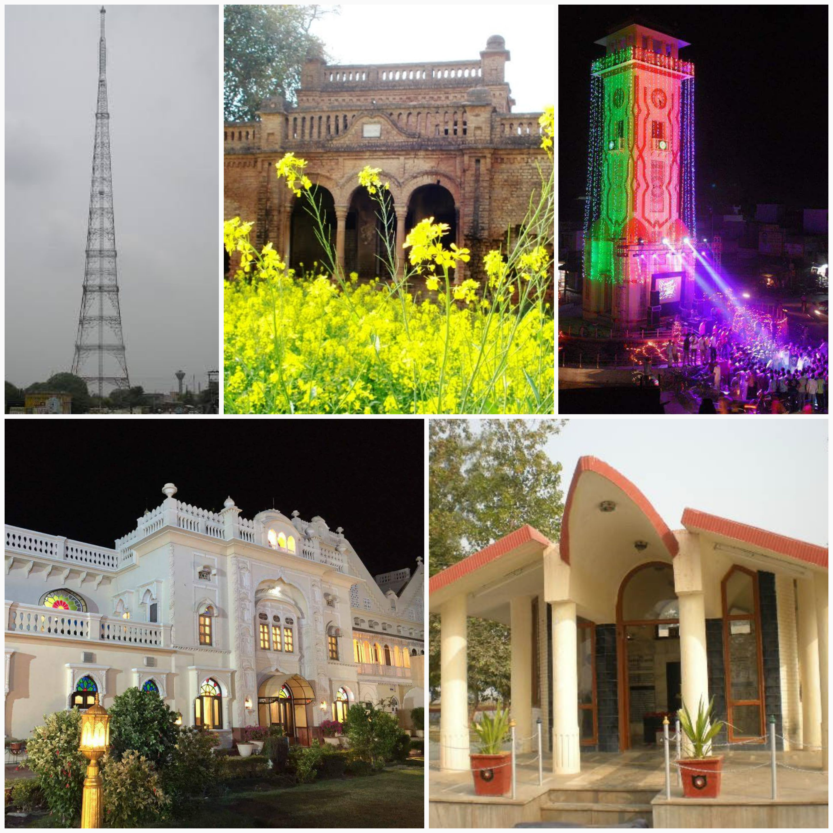 Fazilka city photos